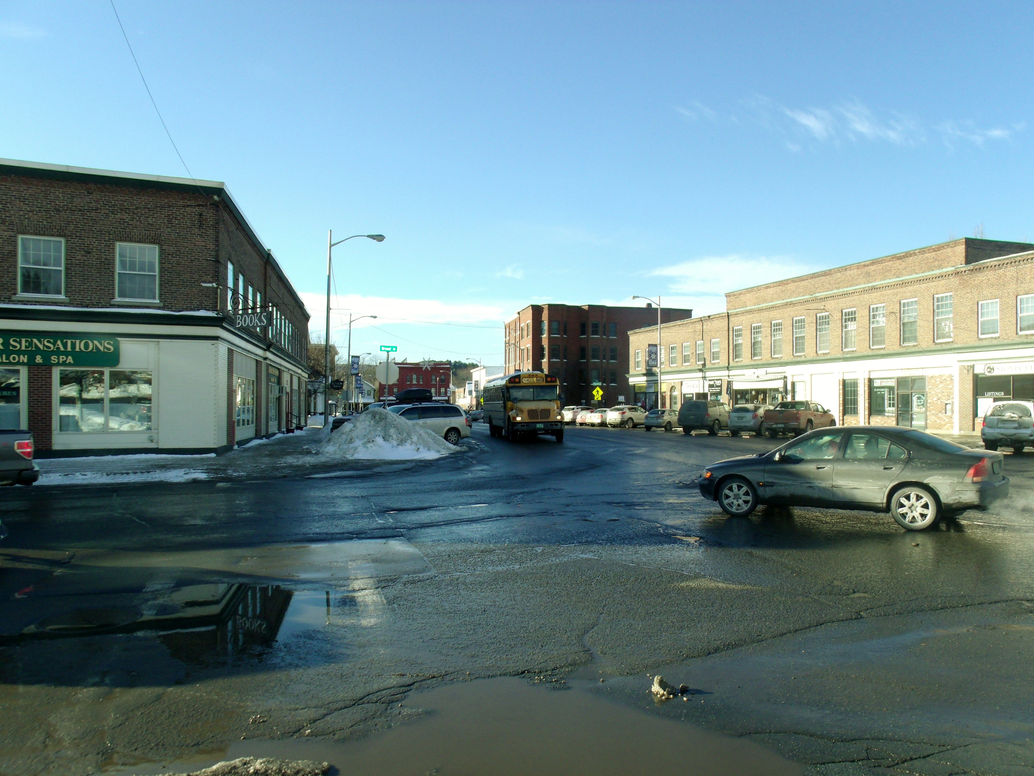 Depot Street in downtown Lyndonville, Vermont